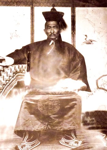 Gadinbalyn Tserendorj, Mongolia's first Finance Minister Монгол: Богд хаант Монгол улсын анхны Сангийн яамны сайд Гадинбалын Цэрэндорж